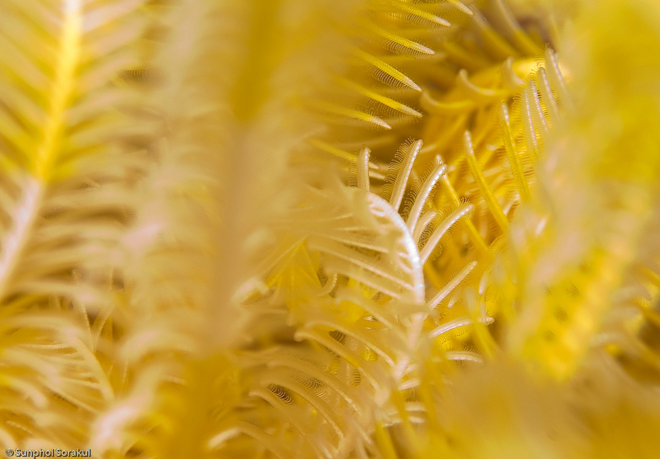 Pinnules of a yellow Crinoid.